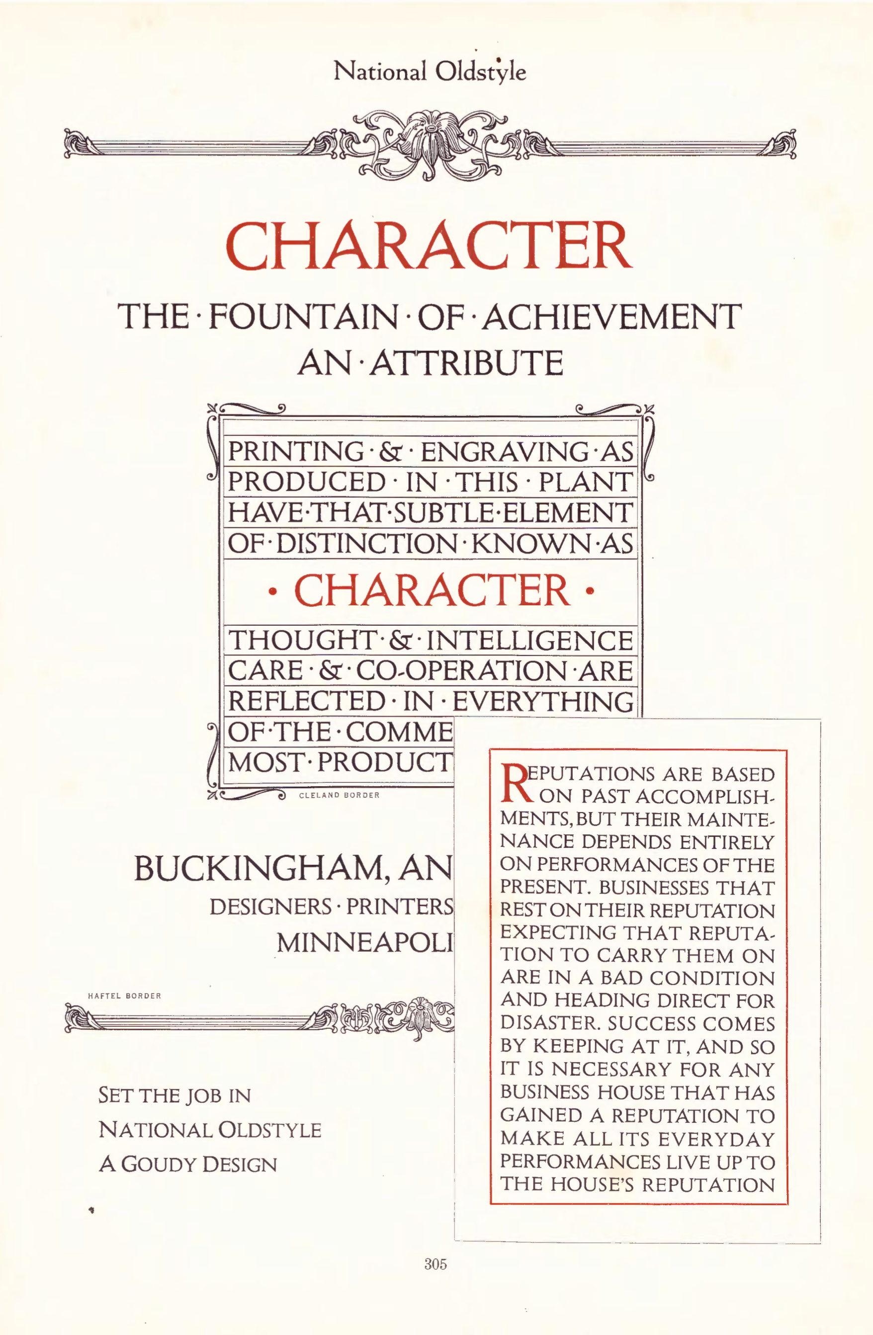 A specimen of the font National Oldstyle, created by American Type Founders. This specimen is shown in their 1923 specimen book on page 305.